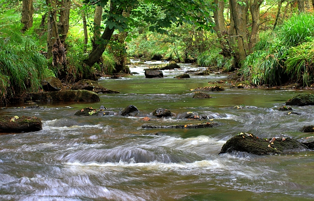 Hodge Beck. Looking upstream from an estate bridge which straddles the gridline.